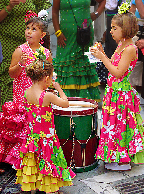 Lots of little kids at the Feria de Málaga had the traditional dresses on.